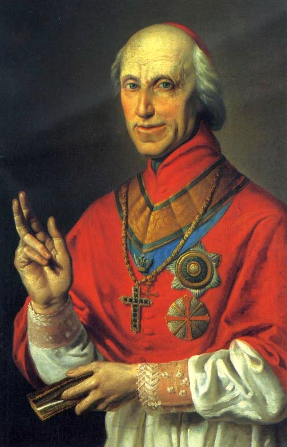 Emanuele de Gregorio (1758-1839), cardinal of the Roman Catholic Church